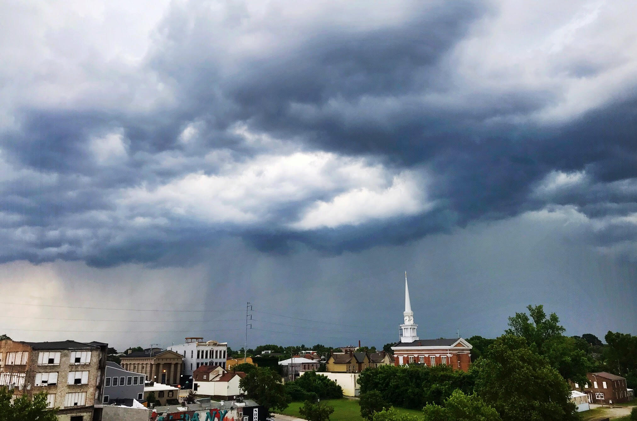 Storm clouds move over downtown New Albany, Indiana.